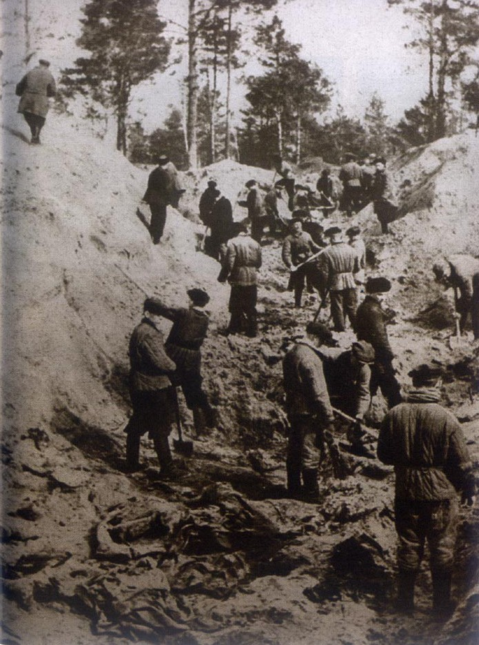 Photo from 1943 exhumation of mass grave of polish officers killed by NKVD in Katyń Forest in 1940. Excavation of the largest grave (#1). Bodies of general Mieczysław Smorawiński and general Bogusław Bohaterowicz were found in this grave.